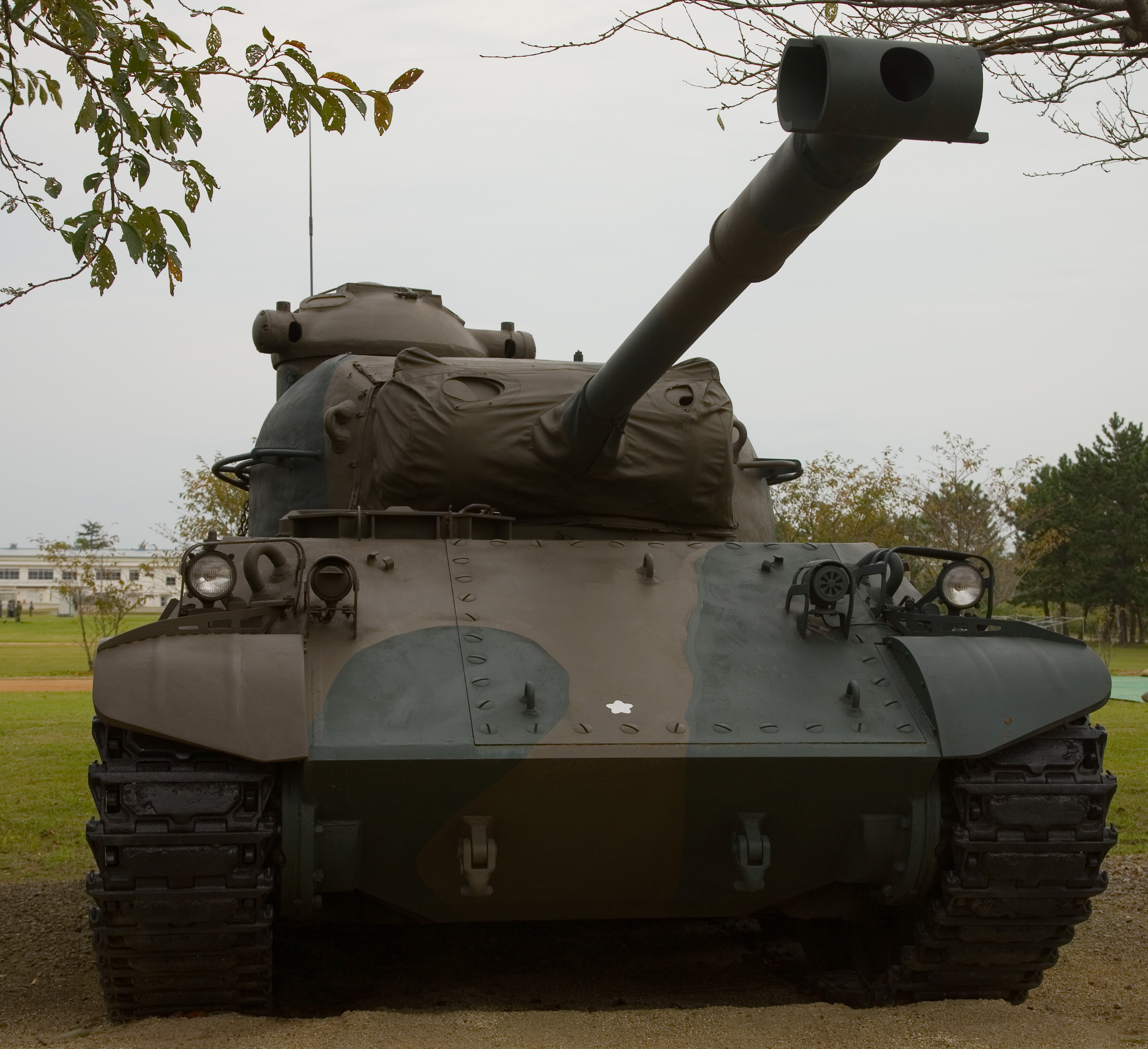 A Type 61 tank on display at the JGSDF Ordnance School in Tsuchiura, Kanto, Japan.